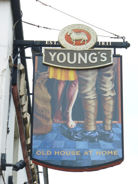 West Street Pub Sign Sign outside the "Old House at Home" on Dorking's West Street. Perhaps the legs belong to a Roman and a WW1 soldier? The Young's brewery has recently closed and the named beer is now brewed in Bedford.